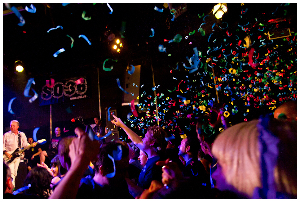 The Adicts in SO36